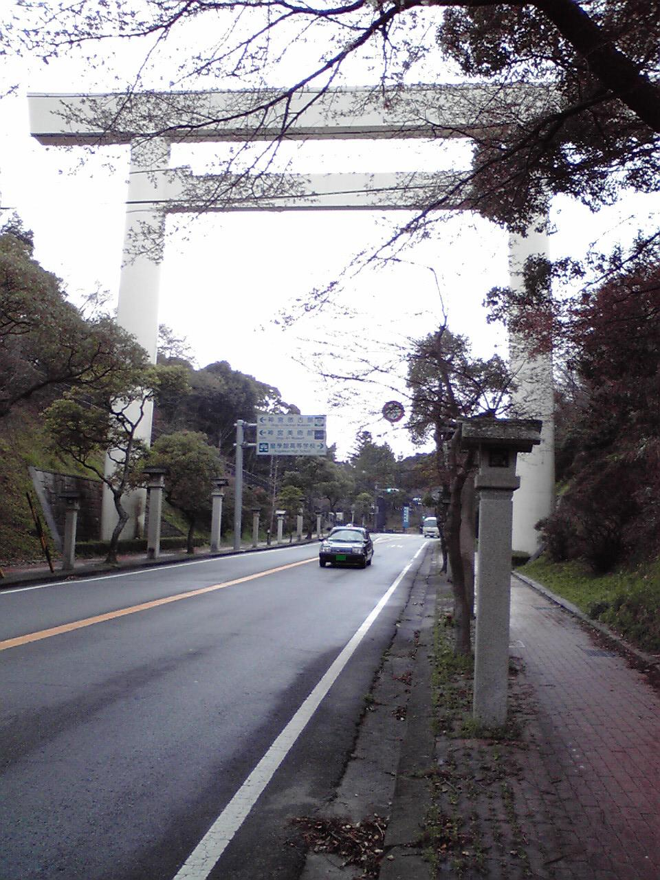 Torii gate on the Mie Prefectural Road Route 37 in Ise City, means "Welcome to Ise, the City of the Shrine"